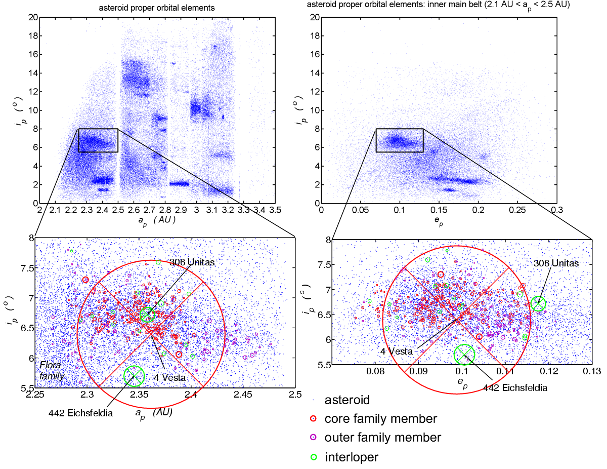 Diagrams showing the location and characteristics of the Vesta family of asteroids. Where circles are plotted, their diameter is proportional to the mean diameter of the asteroid. In the top diagrams, the proper orbital elements are plotted (inclination ip vs. semi-major axis ap on the left, and inclination ip vs. eccentricity ep on the right) for numbered asteroids in the main belt. In the bottom enlargements, one has: core family members (shown in red) are those identified by the 1995 Zappala (V. Zappala et al, Icarus Vol. 116, p. 291 (1995)) HCM method analysis. The data set is here. outer family members (shown in purple) were identified by the same analysis, but are somewhat less certain to be members (were given a quality tag of "1" in the data-set) interlopers (shown in green) were identified either: in A. Cellino et al "Spectroscopic Properties of Asteroid Families", in Asteroids III, p. 633-643, University of Arizona Press (2002). (Table on page 636, in particular), and also by inspection of the PDS asteroid taxonomy data set for non V- or J-type members of the above Zappala 1995 data. numbered asteroids in general (shown as small blue dots), from the AstDys database. The location of asteroids that are very large and/or explicitly named on the plot is shown by a light cross within the circle. Asteroid diameters were obtained from two sources: (thick circles): From the IRAS survey, when available (data set here). (thin circles): Otherwise, by assuming an albedo of 0.1 (approximate average of non-interlopers in the IRAS survey), and estimating from absolute magnitudes from the AstOrb database here. The diagrams were created by me (Piotr Deuar) using proper element data for 96944 minor planets, which was obtained from the AstDys site. Data was dated March 2005, calculation was by Z. Knezevic and A. Milani. The top left plot is a slightly modified reduced version of Image:Asteroid_proper_elements_i_vs_a.png.